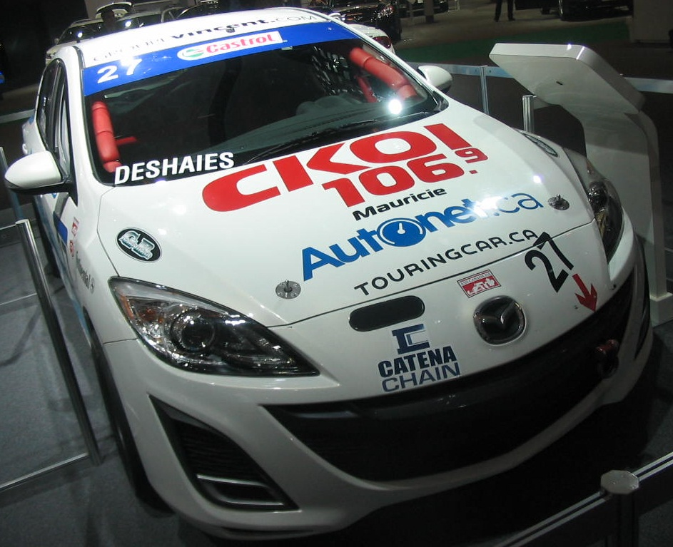 Mazda3 photographed in Montreal, Quebec, Canada at the 2012 Montreal International Auto Show.